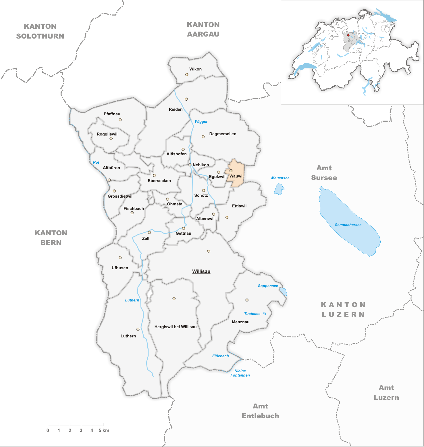 Municipality Wauwil